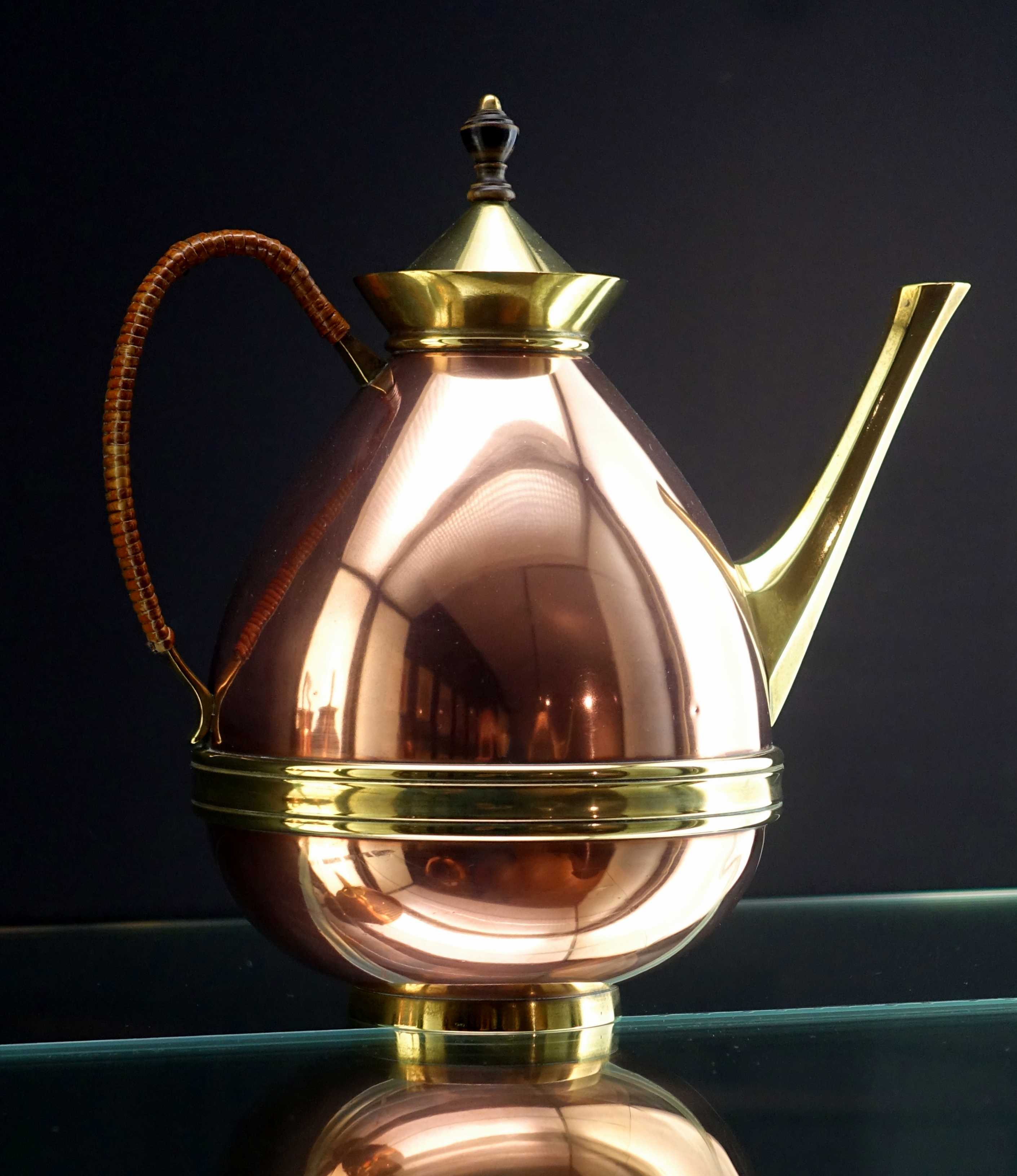 Exhibit in the Bröhan Museum, Berlin, Germany. This work is in the public domain because the artist died more than 70 years ago.